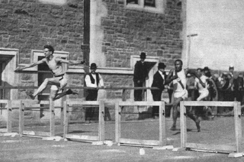 Harry Hillman during 200 m hurdling event at th the 1904 Summer Olympics